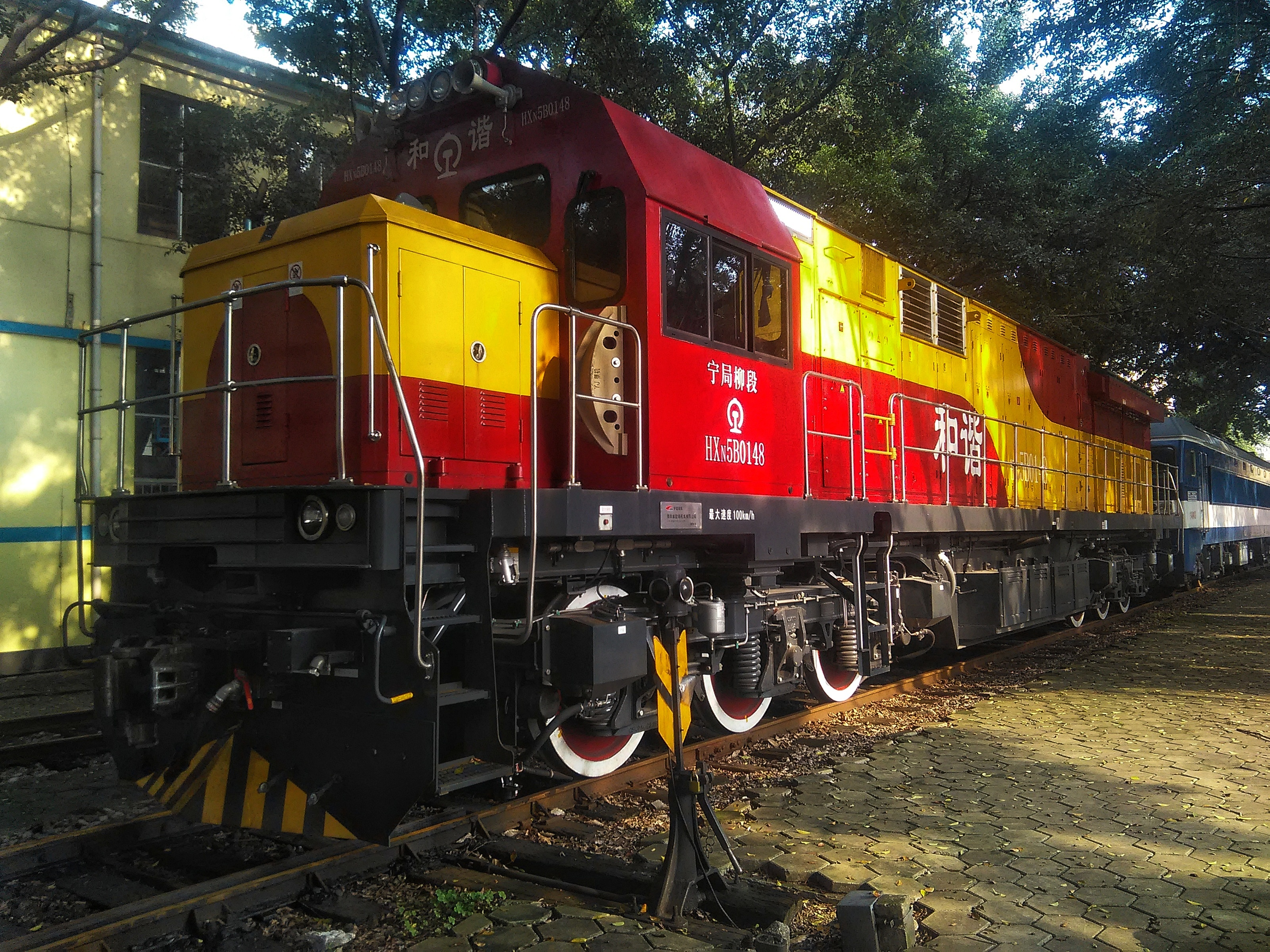 China Railways HXN5B 0148 in Liuzhou Locomotive Depot, Nanning Railway Bureau.